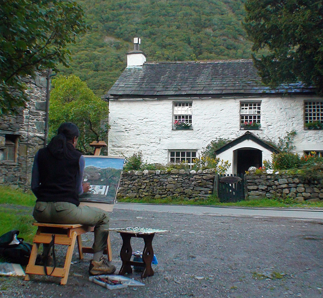 Dominican Republic Artist Olivia Peguero painting in the Hamlet of Stonethwaite, Lake District National Park, England 2014